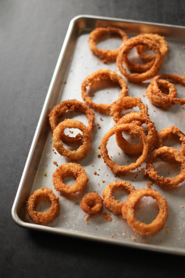 You are free to: Share — copy and redistribute the material on your website on the internet in any format. Adapt — remix, transform, and build upon the material for any purpose on the internet, even commercially. However, you must give appropriate credit and provide a link next to the image you use to and the original post, here